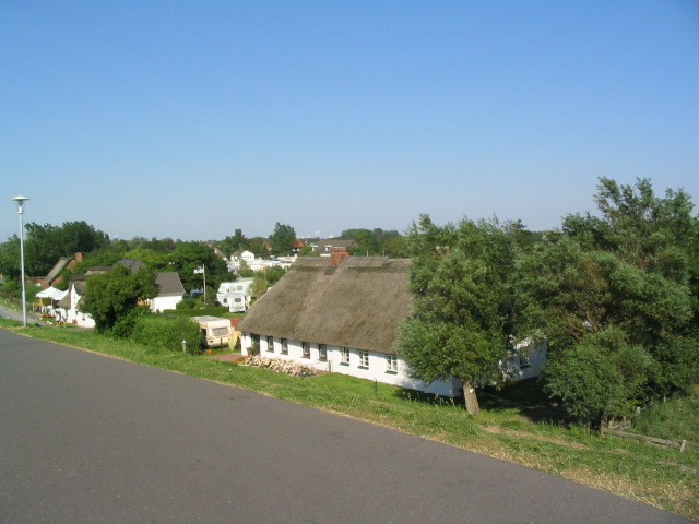 Wind turbiStinteck (Westerdeichstrich). Dithmarschen. Picture taken in Westerkoog, Dithmarschen, Schleswig-Holstein, Germany